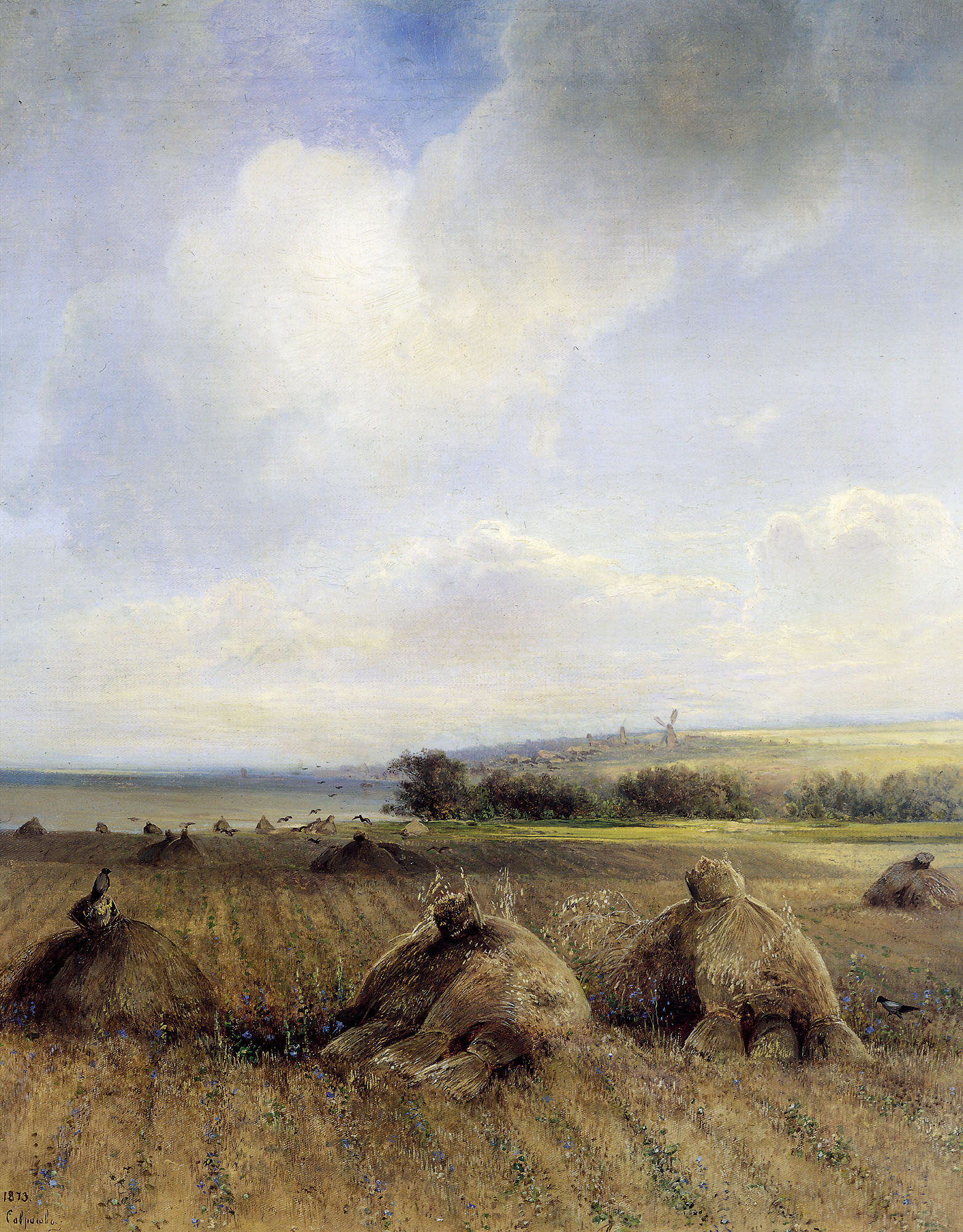 By the end of the summer on the Volga